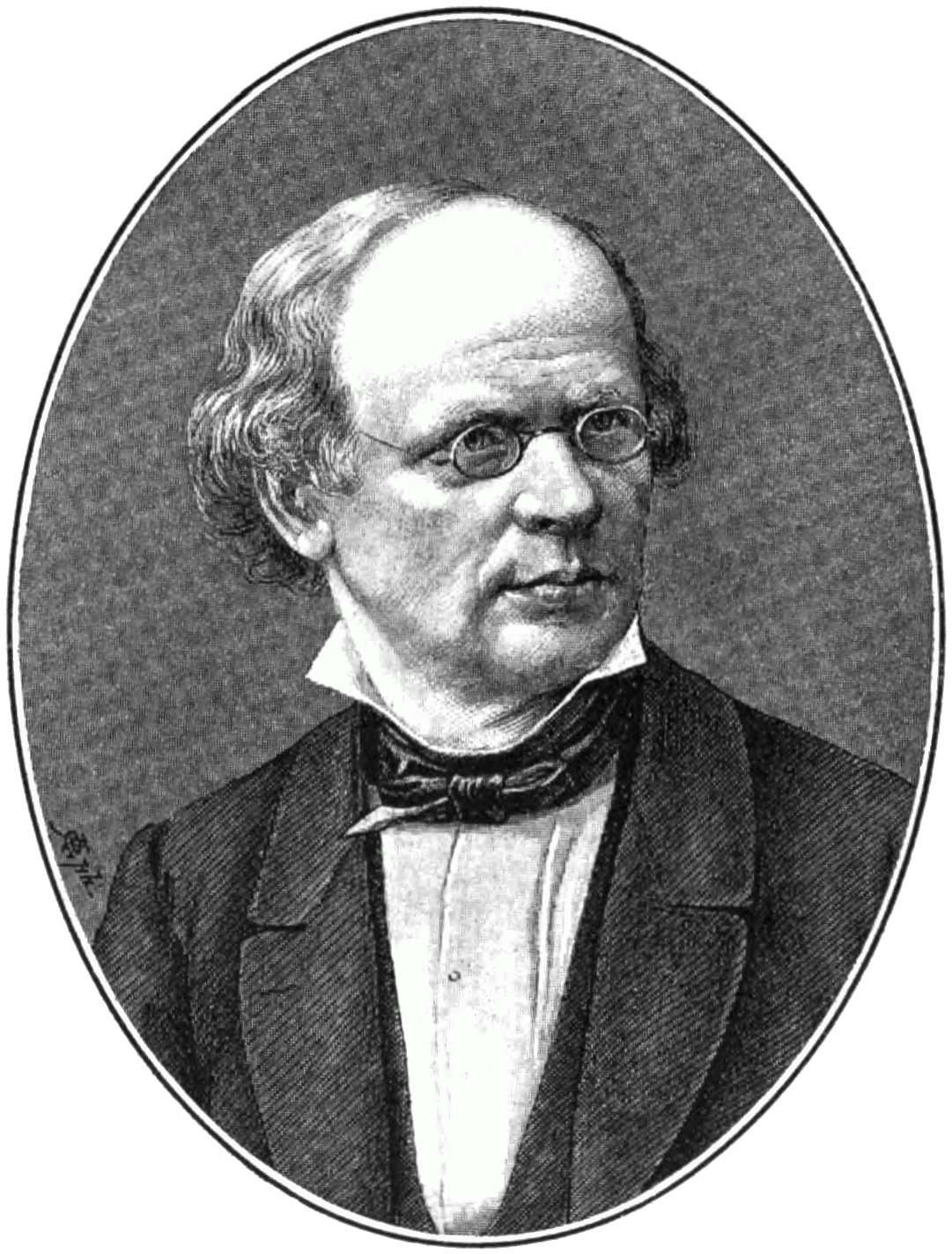 Adolf Holtzmann (1810-1870), German linguist